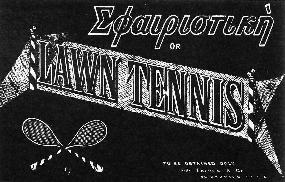 Cover of the first edition of the book about Lawn Tennis by Walter Wingfied, published in February 1874, that founded modern Tennis. Of only two still existing books known, one is in possession of Racquet & Tennis Club, 570 Park Avenue, New York City.